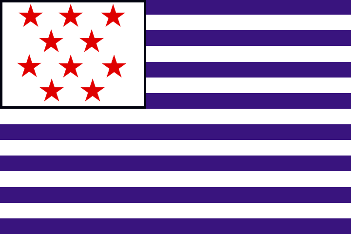 Based on image from the Facebook page of Bakassi Movement for Self-Determination